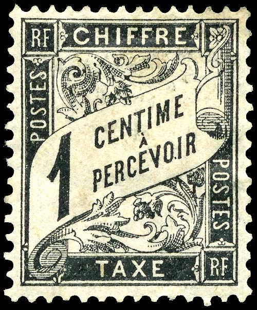 France 1-centime postage due stamp of 1882